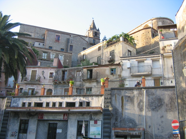 Author : Urban Description : Castiglione di Sicilia, Sicilia Body : Canon Powershot A80 Date : August, 2005